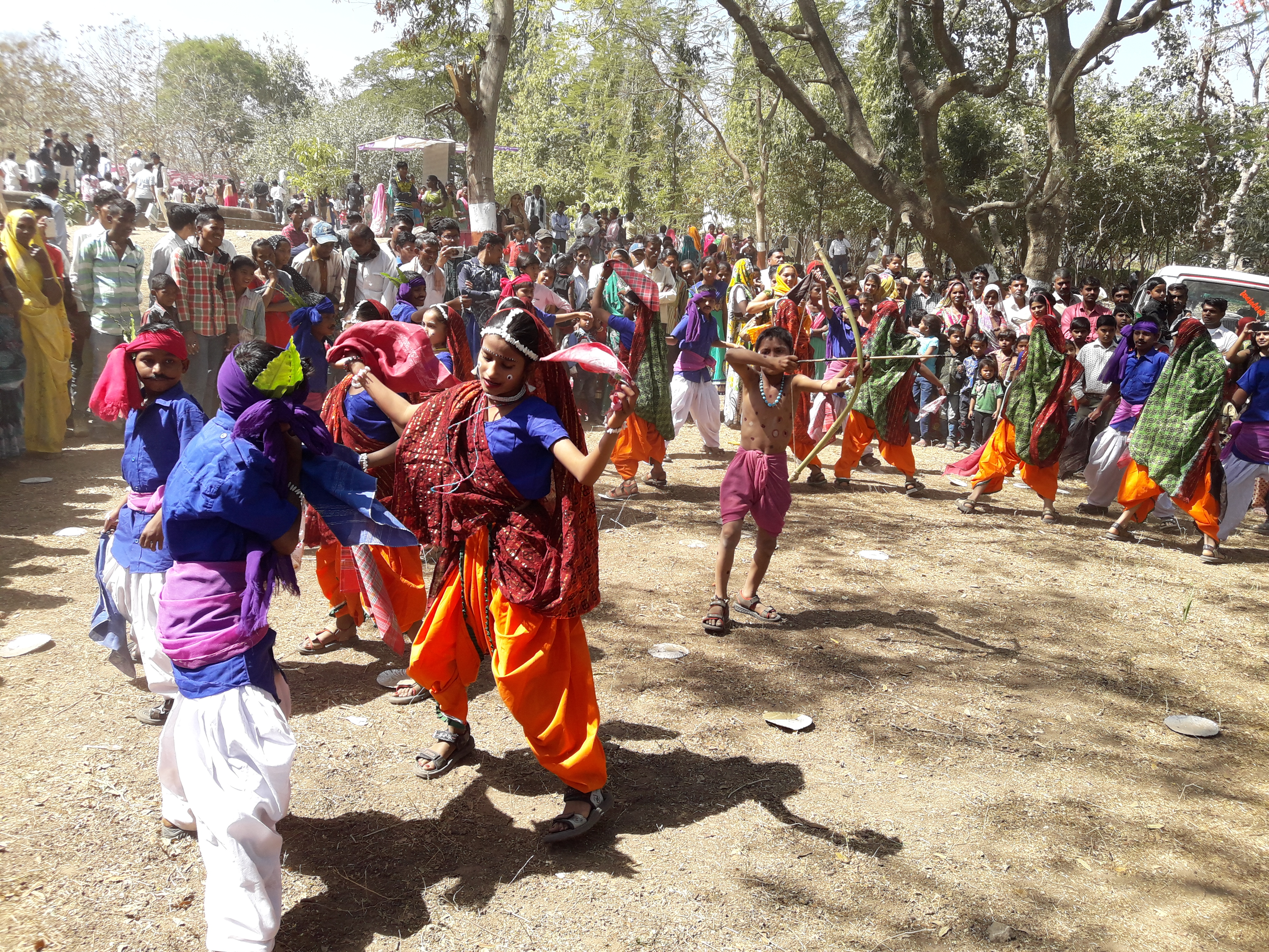 Folk dance Timli Performed by Adivasi children of Tejgadh tribe academy in Kaleshwari Art Fair on 24 February 2017.